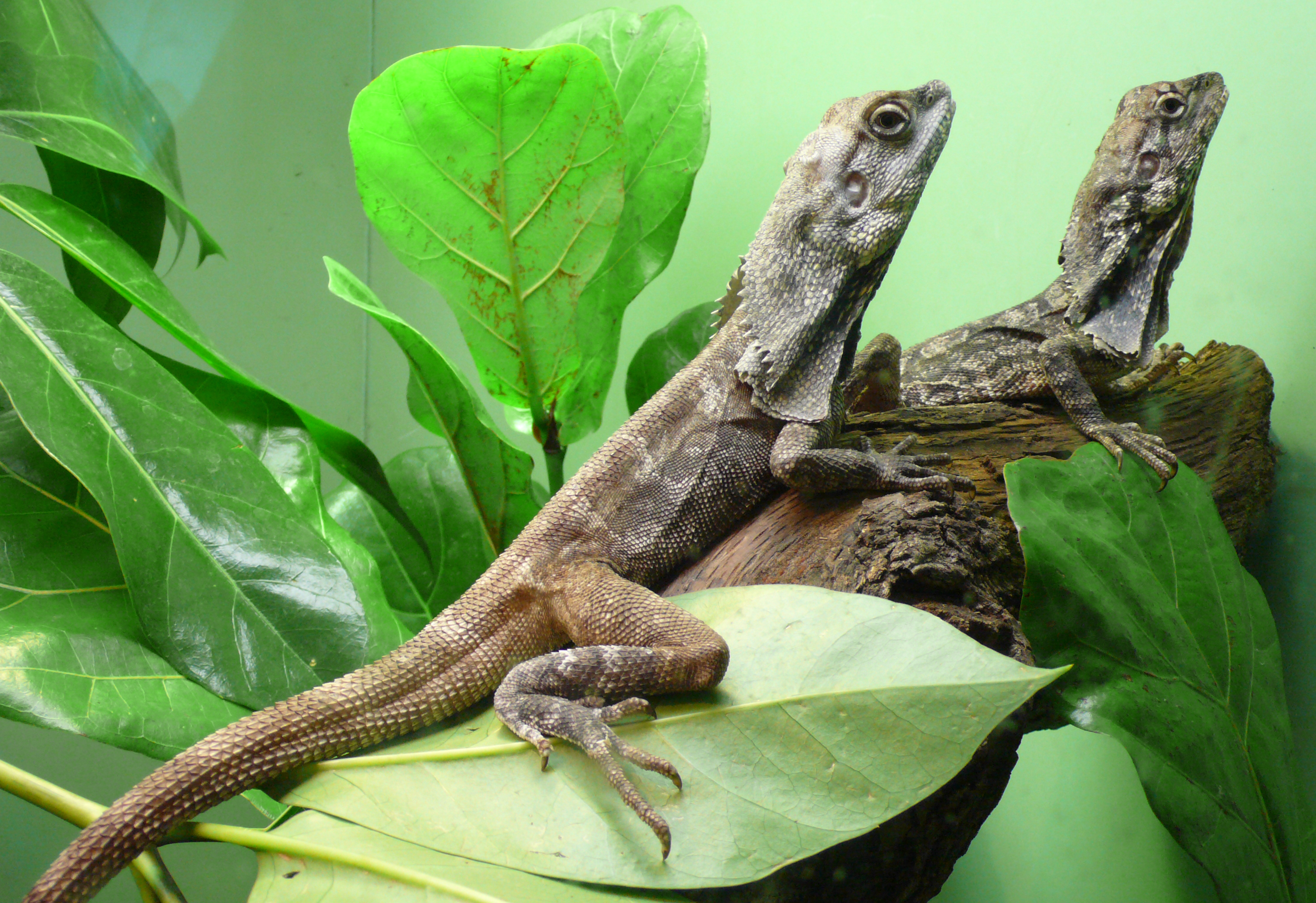 Pair of Frill-necked Lizards (Chlamydosaurus kingii)